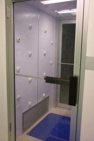 Cleanroom air shower from NASA site.